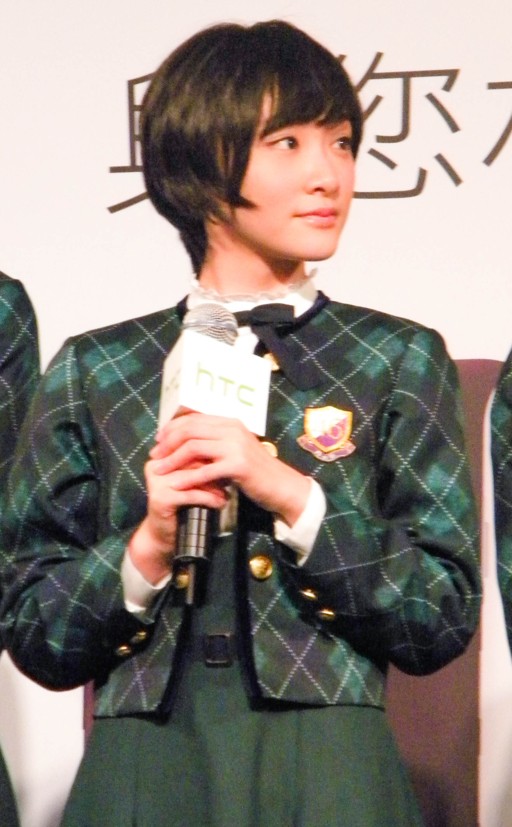 Rina Ikoma (Nogizaka46) on HTC and Chunghwa Telecom HTC Butterfly 2 joint marketing event at Taipei, Taiwan.